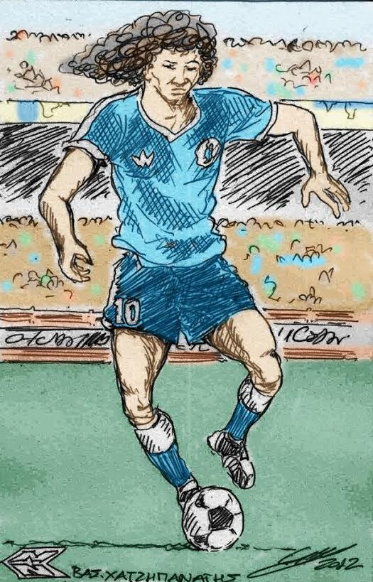 A sketch of Greek veteran footballer Vasilis Hatzipanagis.